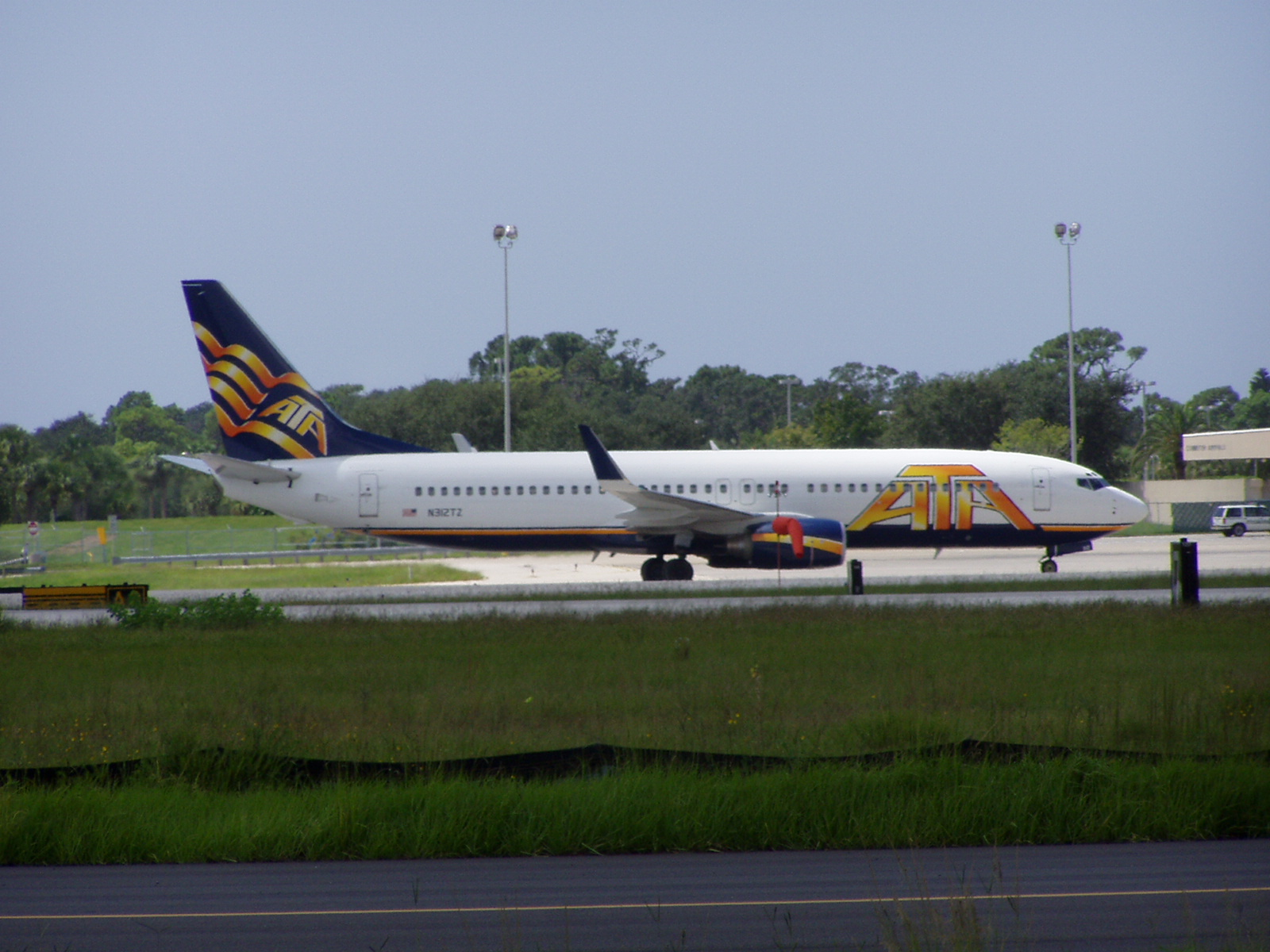 ATA Airlines, formerly American Trans Air, Boeing 737-800. Photo taken at Sarasota-Bradenton International Airport on July 17, 2002.